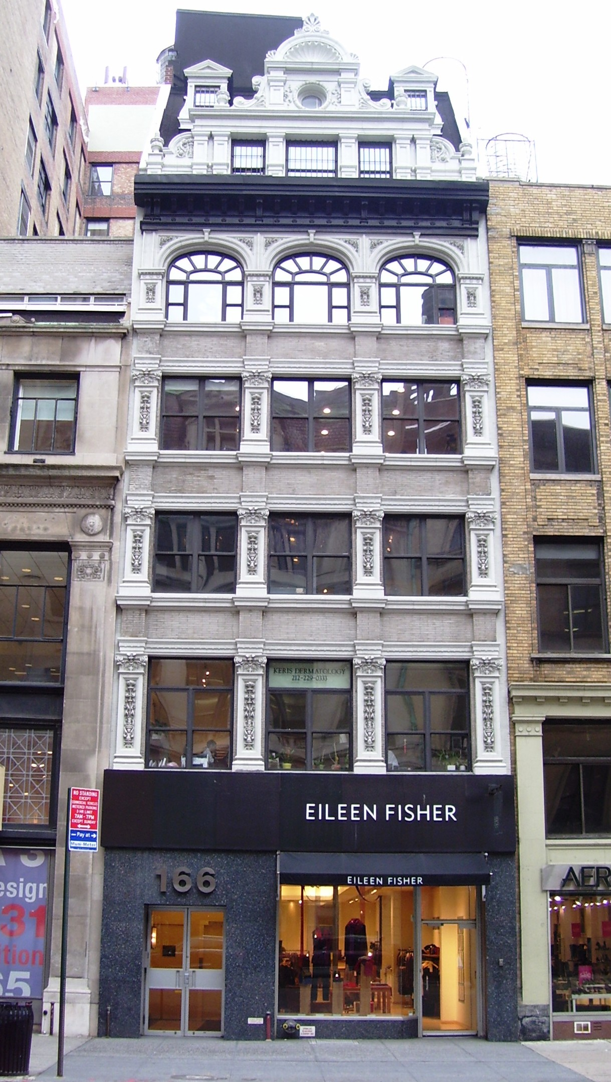 166 Fifth Avenue, between 21st and 22nd Streets in the Flatiron District of Manhattan, New York City, was built in 1899-1900 and was designed by Parfitt Bros. It is in the Ladies Mile Historic District.